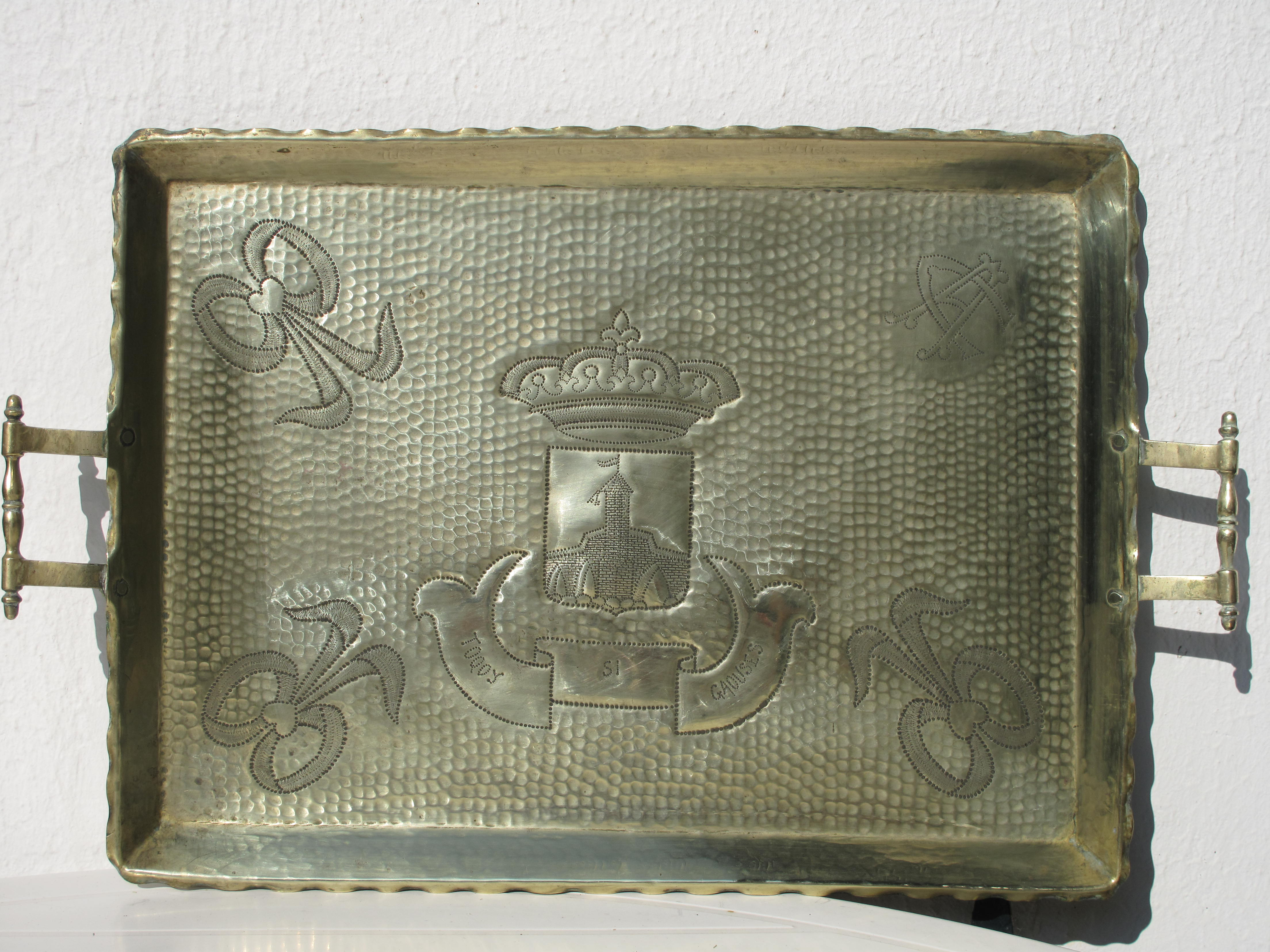 Tray offered for a wedding (see ribbons and hearts) circa 1920. With initials of the wife (AC=Alexine Cazaurang), an image of the old-bridge of Orthez and the motta of the town in gascon language ("Toquoy si gaouses" = Touch-me if you dare)